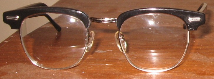 Photo I took of one of my own pairs of eyeglasses. Browline style. PD release.